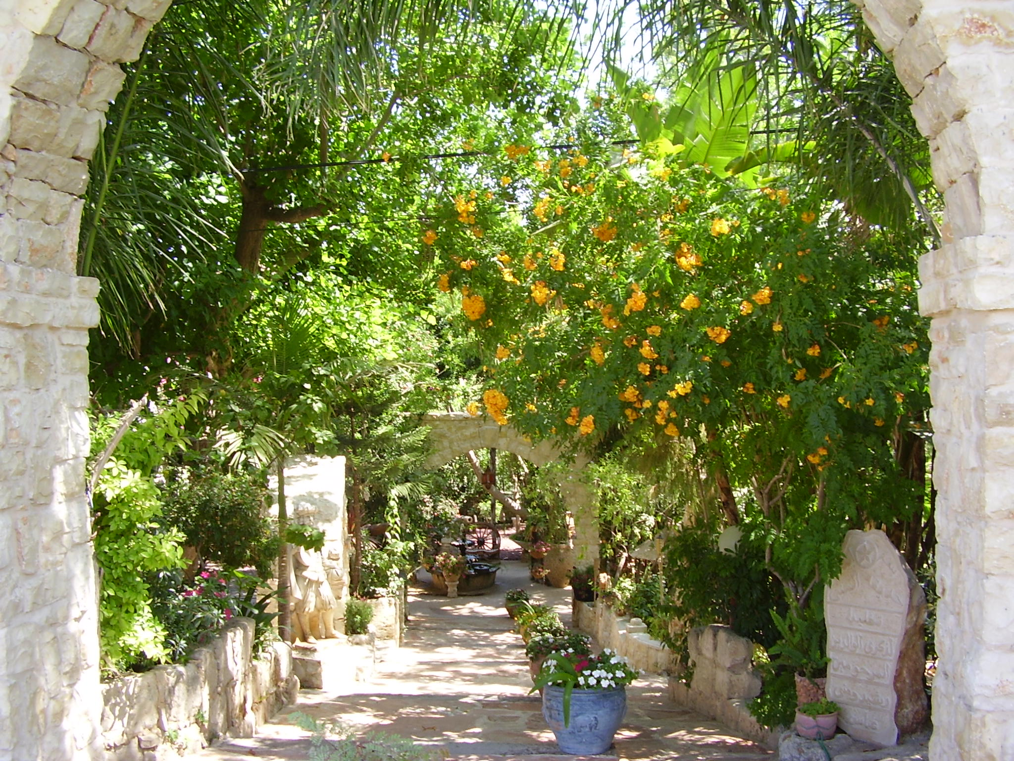 entrance to el-mona garden in julis in galilee